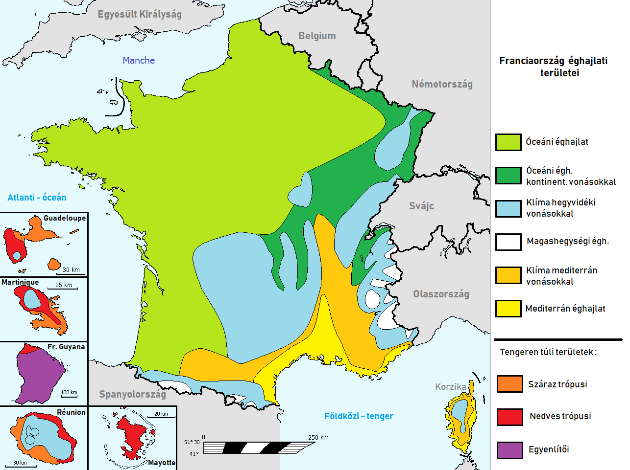 Climate of France in Hungarian